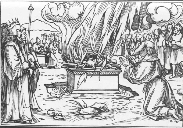 Illustration Nr. 46 of the work: "Hans Holbein, the younger; his Old Testament illustrations, Dance of death and other woodcuts" Autor: "Holbein, Hans, 1497-1543" Herausgegeben von: "Hind, Arthur Mayger, 1880-1957" im Jahr 1912. It shows Mount Carmel, the biblical prophet Elijah, priestess of Baal an the fire of JHWH.